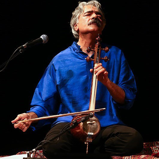 Kayhan Kalhor performance in Vahdat Hall, Tehran.